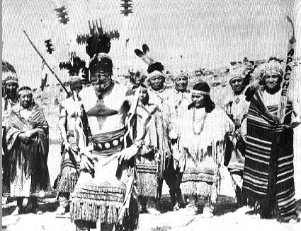 A Group of Apaches